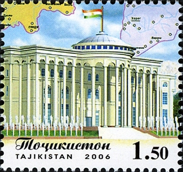 Stamp of Tajikistan. Presidential Palace in Dushanbe.